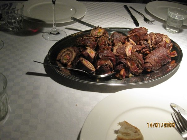 Beef roulade made with carrots and cucumber